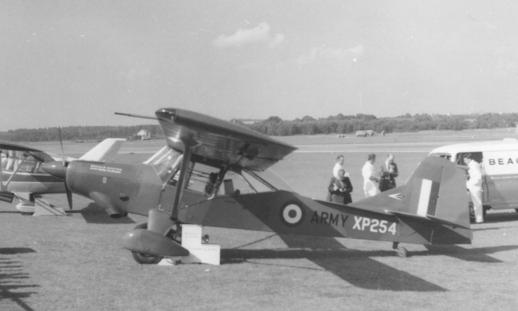 The sole Auster AOP.11 exhibited at the Farnborough Air Show